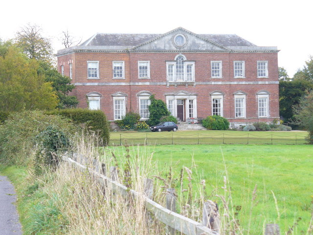 Shillinglee Park Elegant red brick Georgian mansion of Shillinglee Park. It was converted into three large private apartments after finally being restored from a burnt out ruin in 1975. The fire occurred in 1943 when Canadian troops were billeted in the house. The adjacent golf club is closed in October 2009 while landscaping work is in progress.